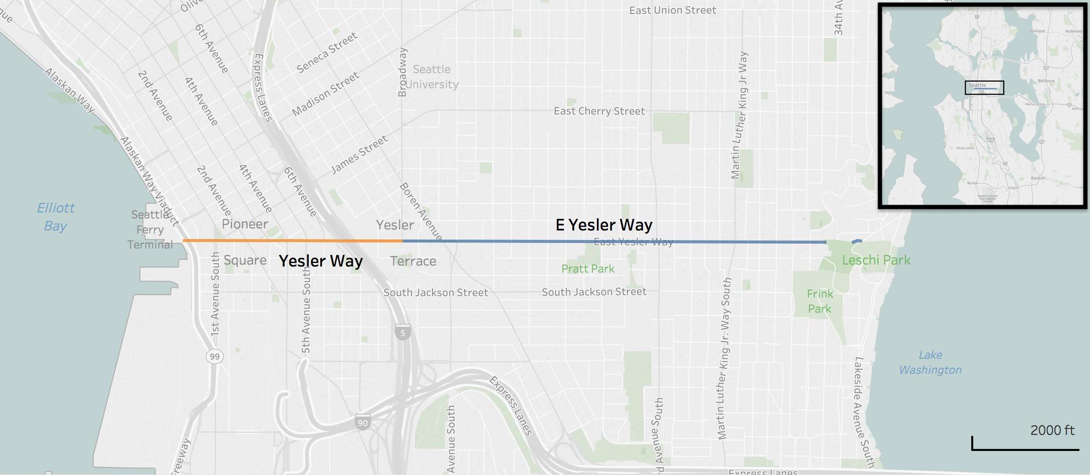 Yesler Way, Seattle, Washington.